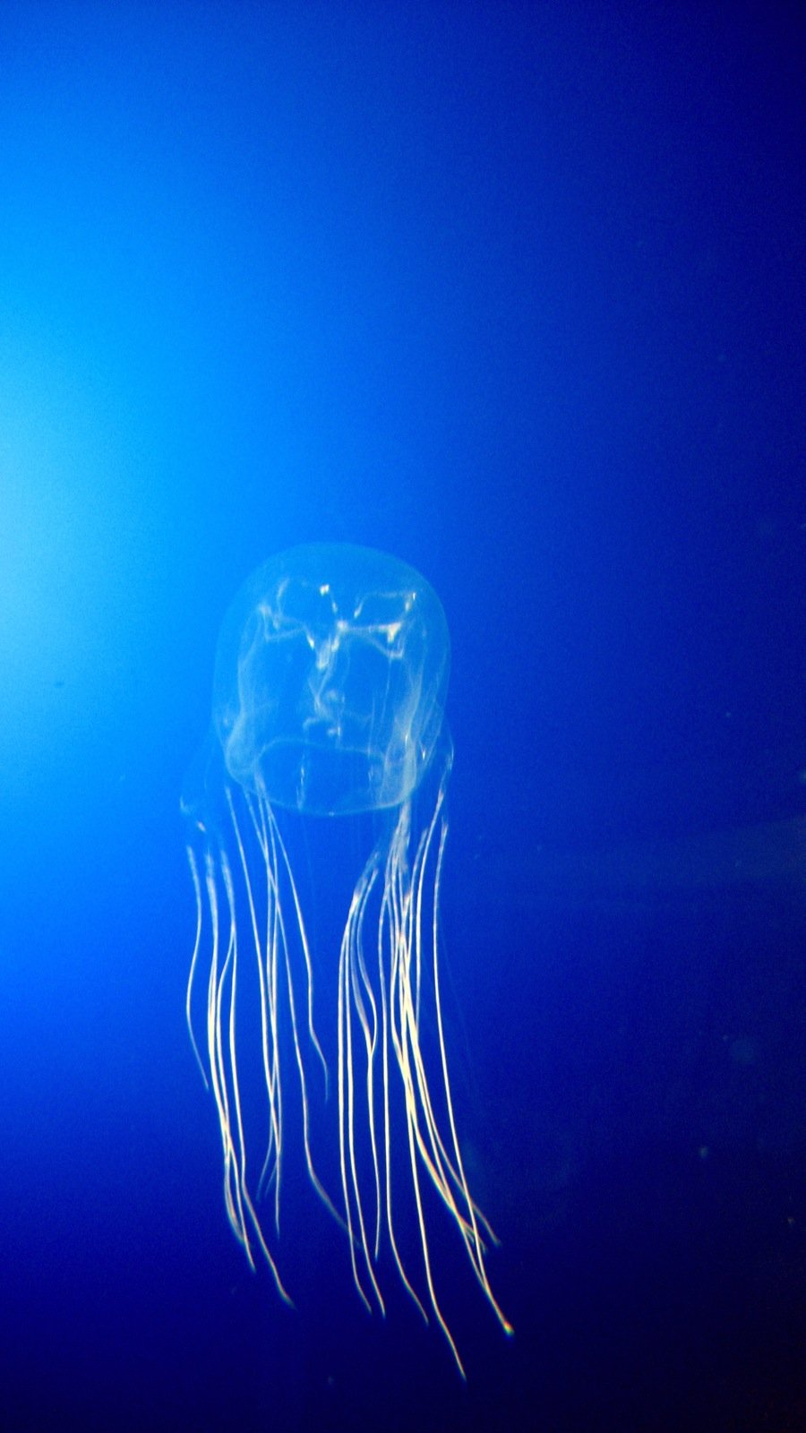 A box jellyfish (Chironex sp.) – tiny but dangerous – at Port of Nagoya Public Aquarium, Japan.